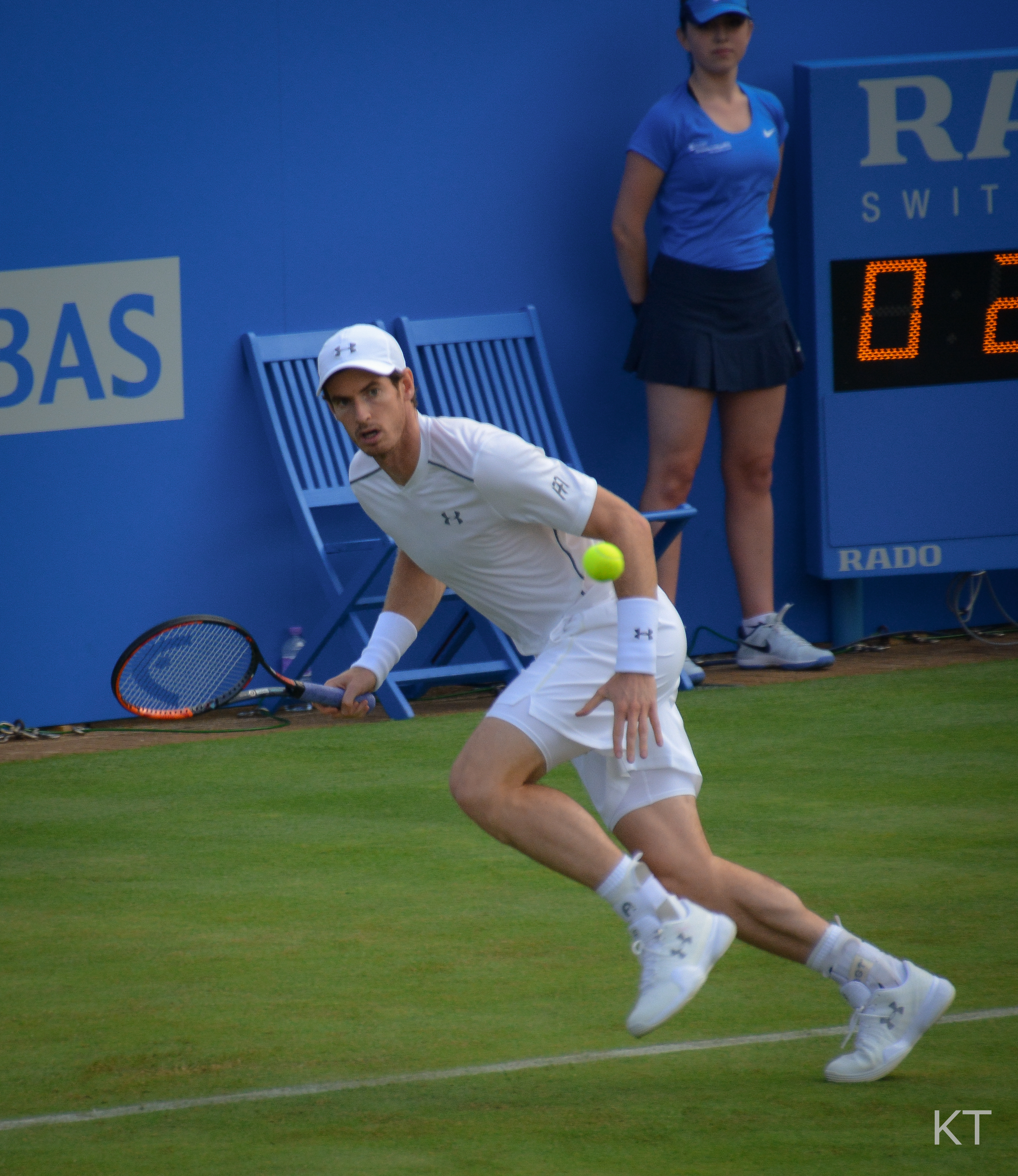 Aegon Championships 2016.